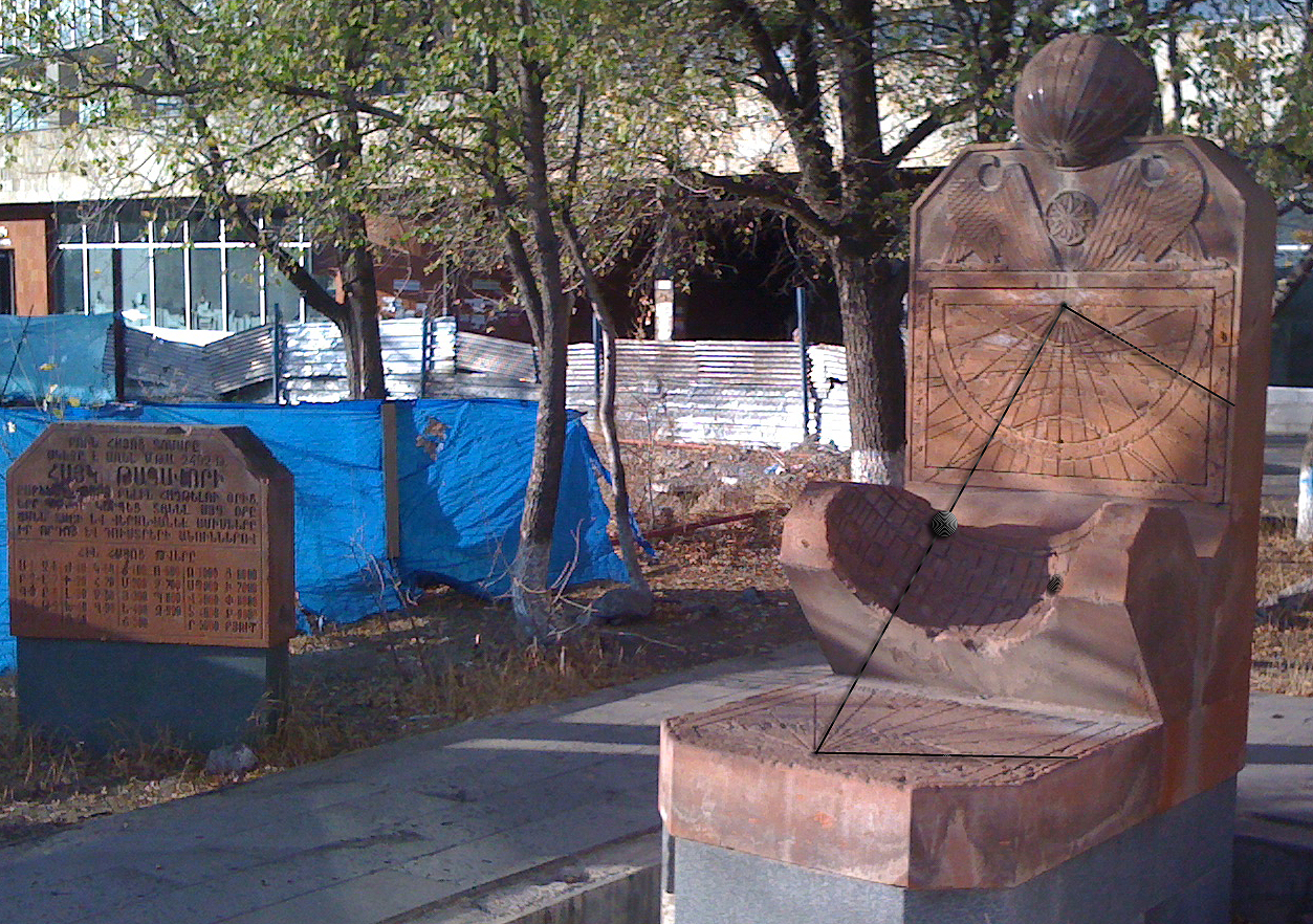 Ancient Armenian Sun Moon and Star dial. Reconstructed by academician Paris Herouni, Yeravan, Armenia